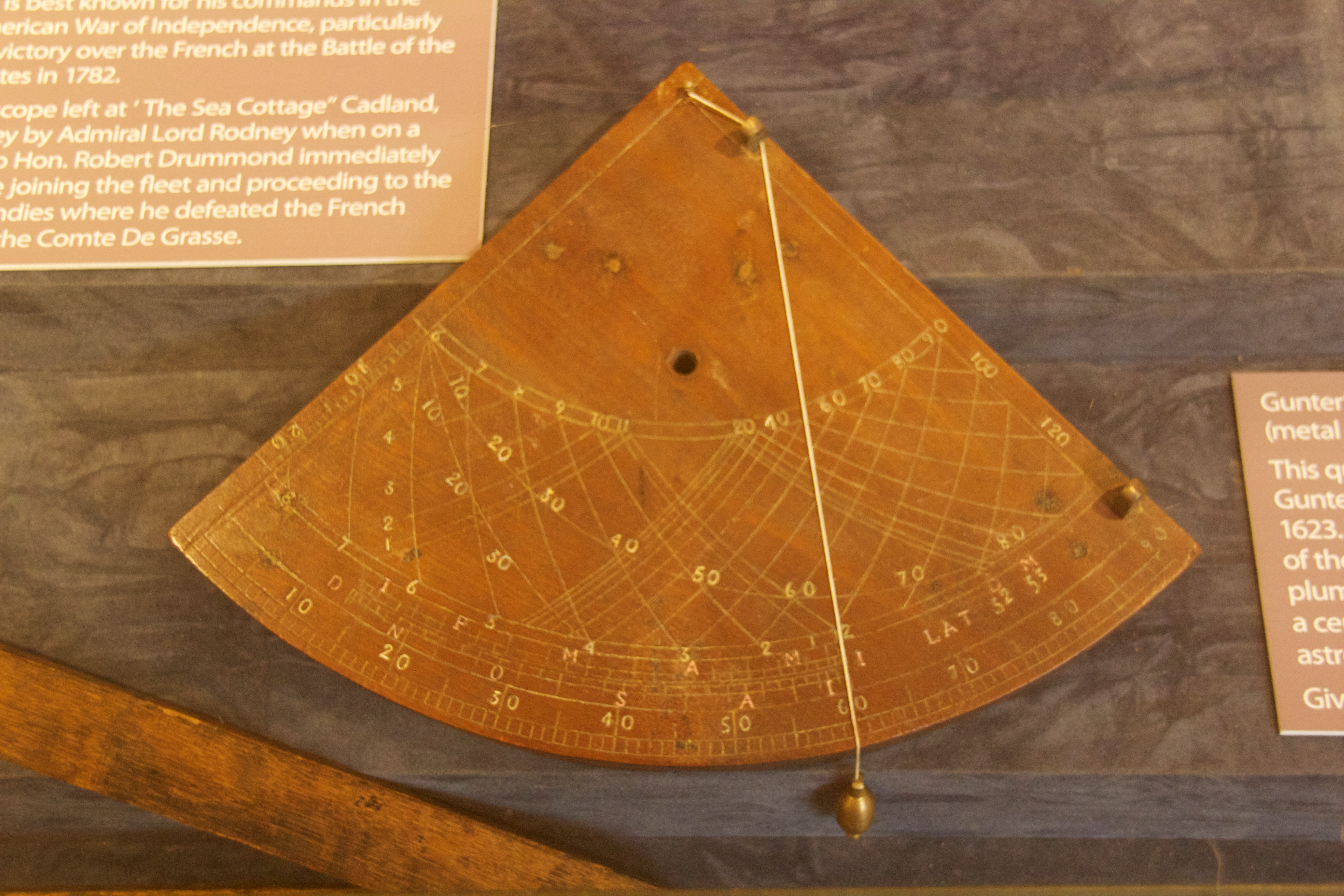 Gunter's Quadrant used for navigation (metal parts restored). Buckler's Hard Maritime Museum, Beaulieu, Hampshire, United Kingdom.